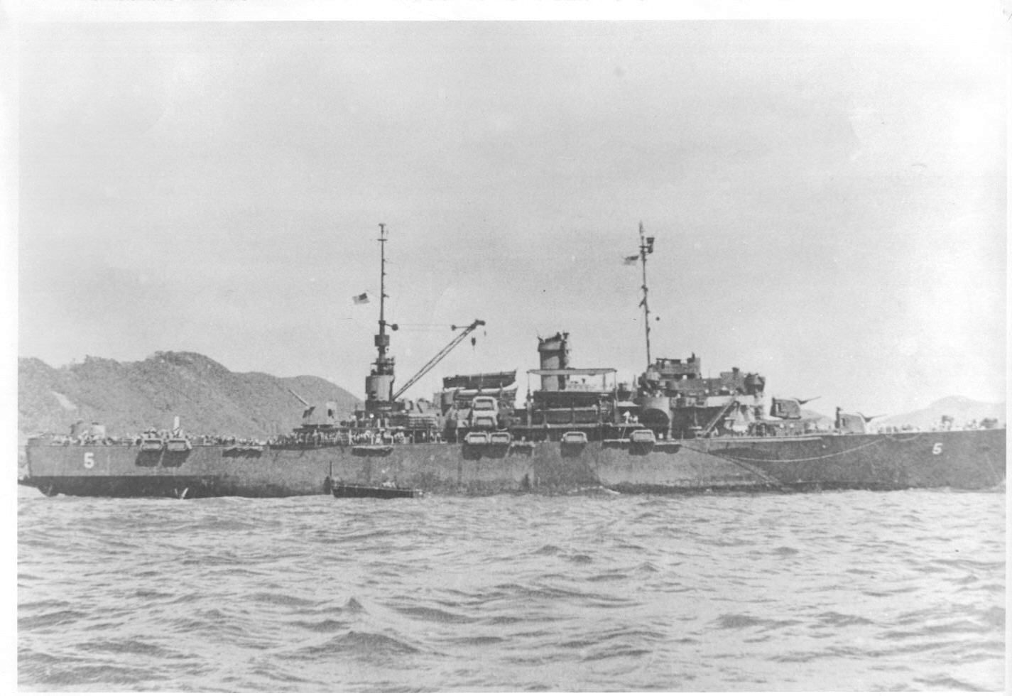 USS Monitor (LSV-5) was recomissioned as a Osage-class vehicle landing ship on 14 June 1944. Originally she was constructed as a net layer (AN-1), then a troop transport (AP-160), but never fully commissioned. She was active in the Pacific theater and decomissioned in 1947. While in "mothballs" she was redesignated as a mine coutermeasure ship (MCS-5), but never commissioned until being struck in 1961.